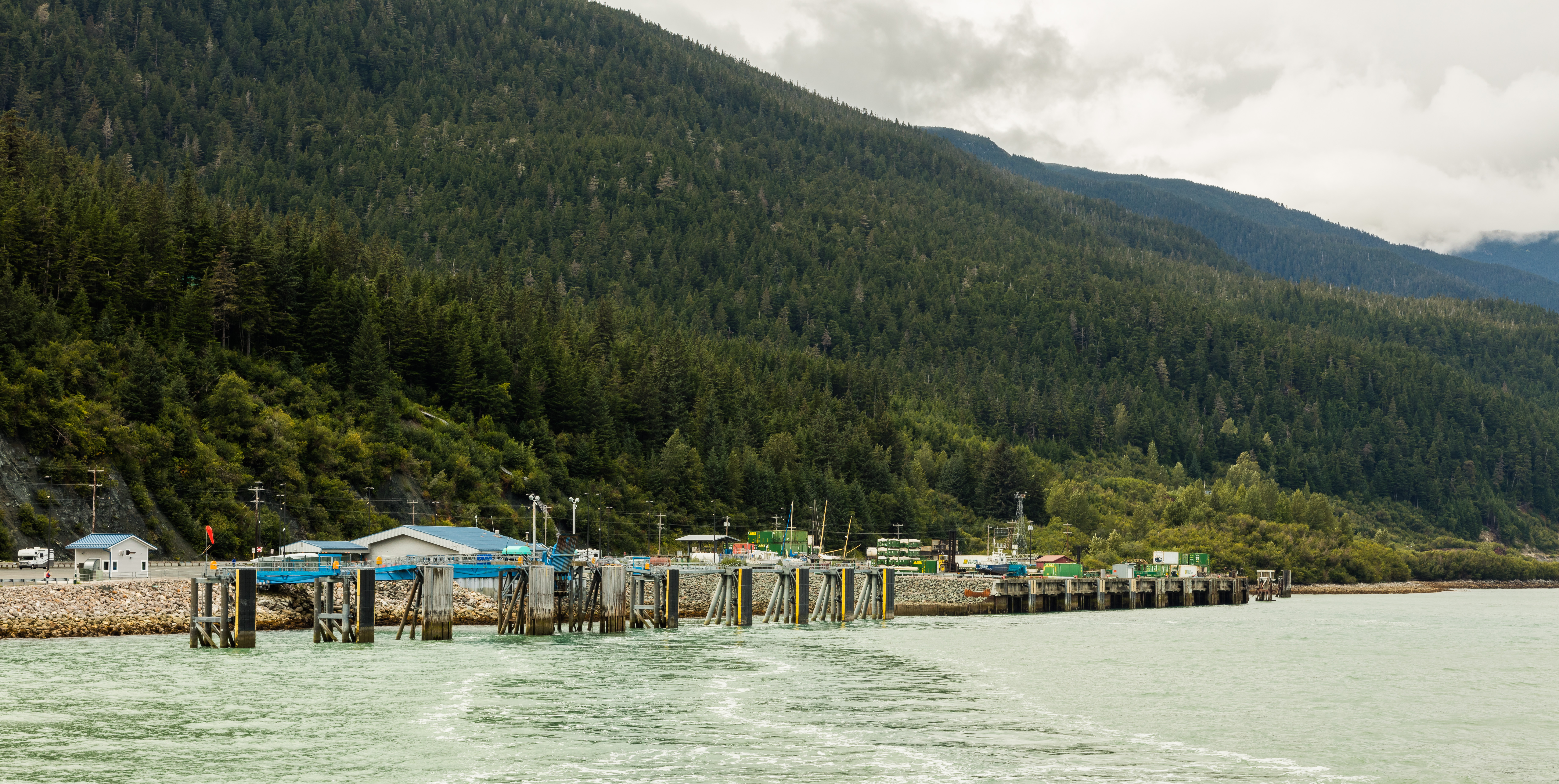 Commercial ferry port, Haines, Alaska, United States